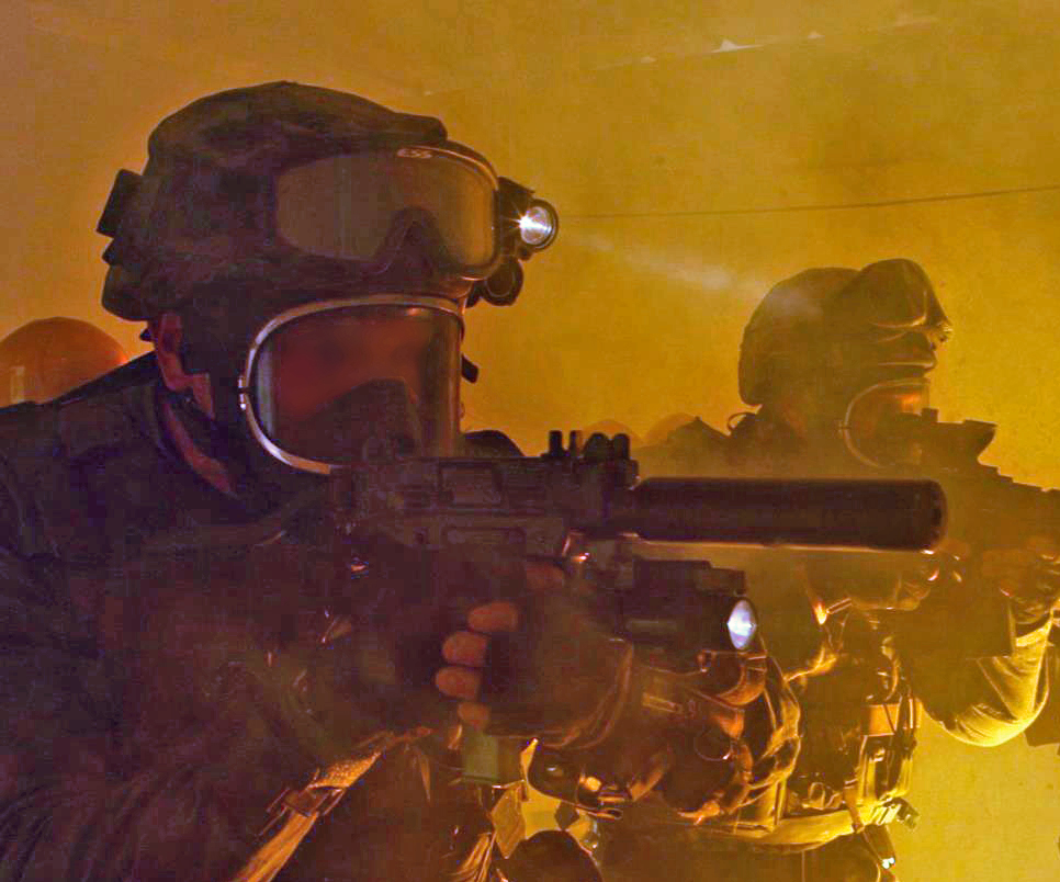 Yamam - Israeli elite counter-terrorism unit, Israeli Police